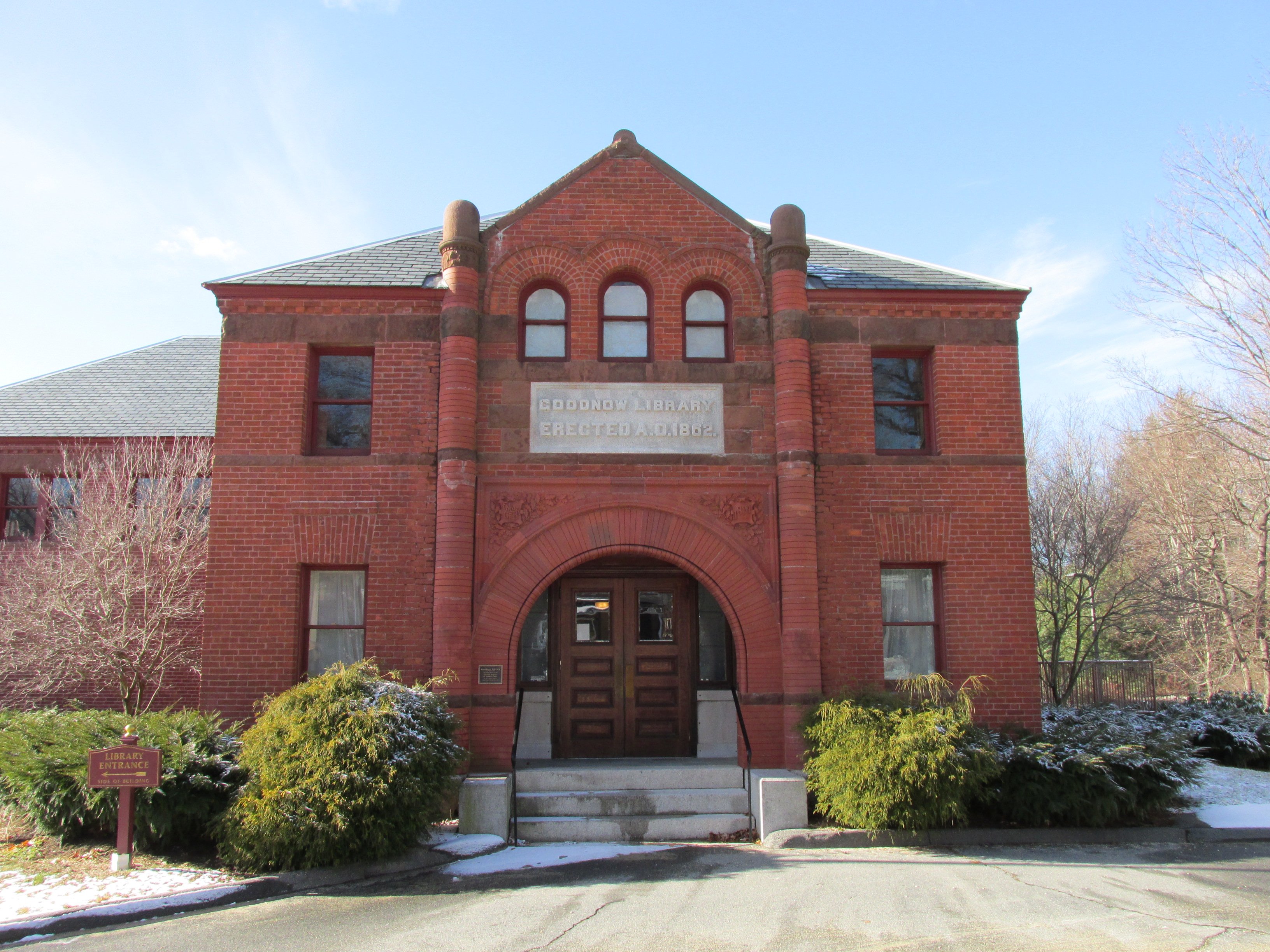 Goodnow Library, December 2012, South Sudbury Massachusetts - 2012